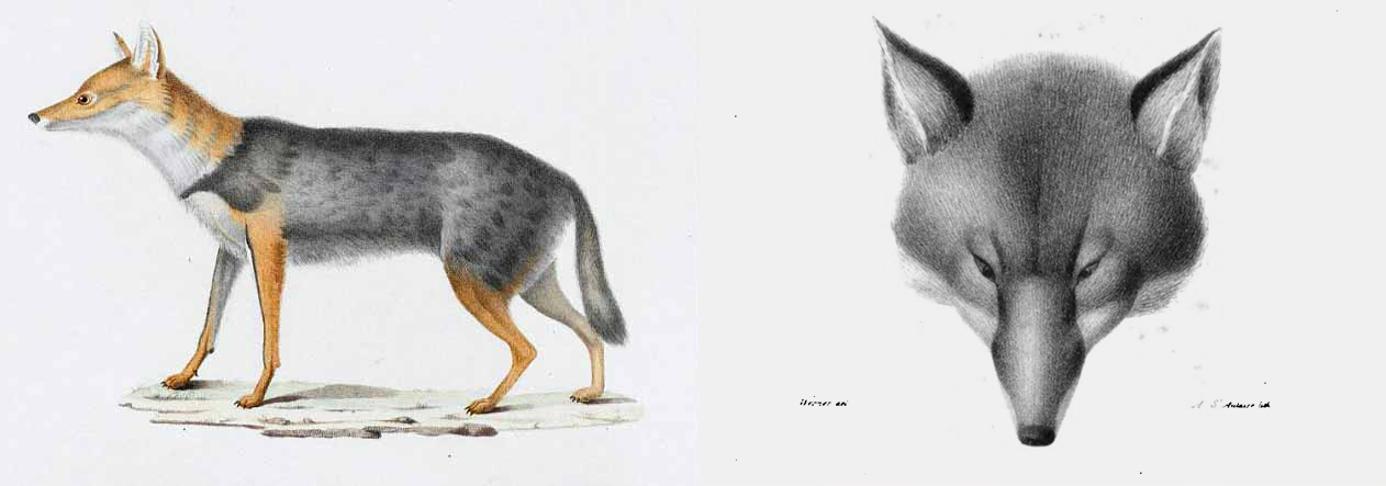 Scarce original hand coloured lithograph of from Jean-Gabriel Prêtre and Jean-Baptiste Bory de Saint-Vincent, in « Relation de l'Expédition scientifique de Morée: Section des sciences physiques », F.-G. Levrault, Paris, 1836.